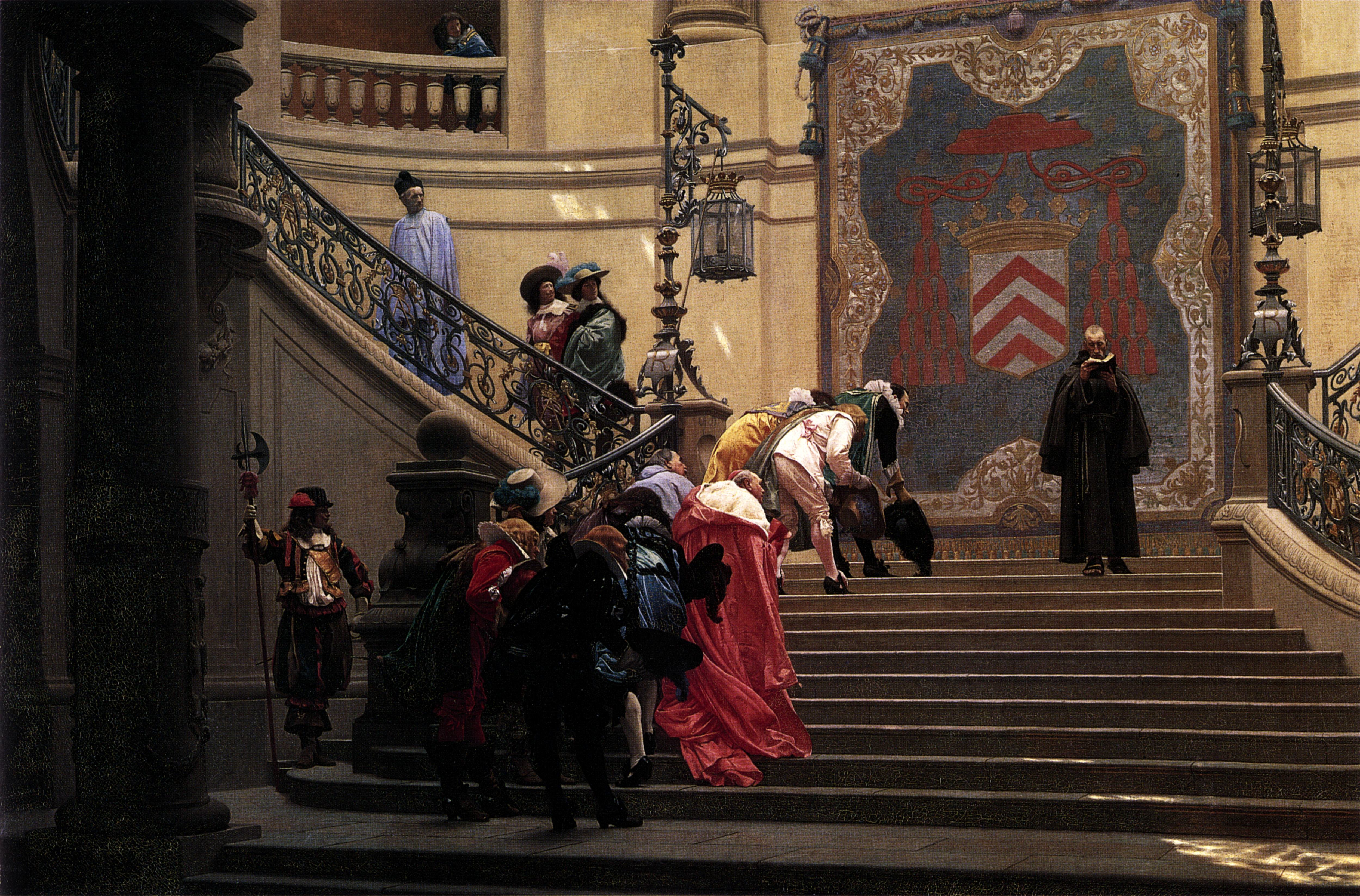 Grey Eminence, François Leclerc du Tremblay (1577–1638), the right-hand man of Cardinal Richelieu